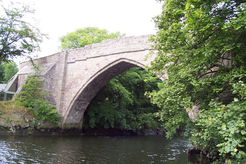 The Brig o' Balgownie crosses the River Don in Old Aberdeen. Photographed from the east (downstream) side on 28th July 2005 by John Heald.